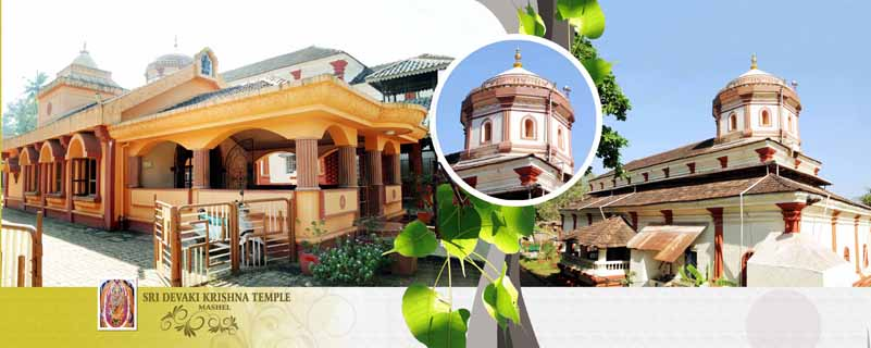 Collage of Photographs of a Goan Temple: Devaki Krishna Temple, Mashel, Goa